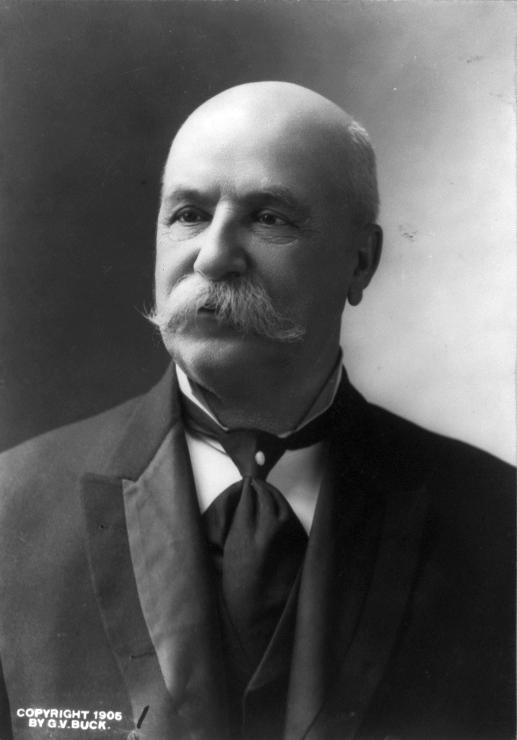 Jacob Harold Gallinger, bust portrait, facing left